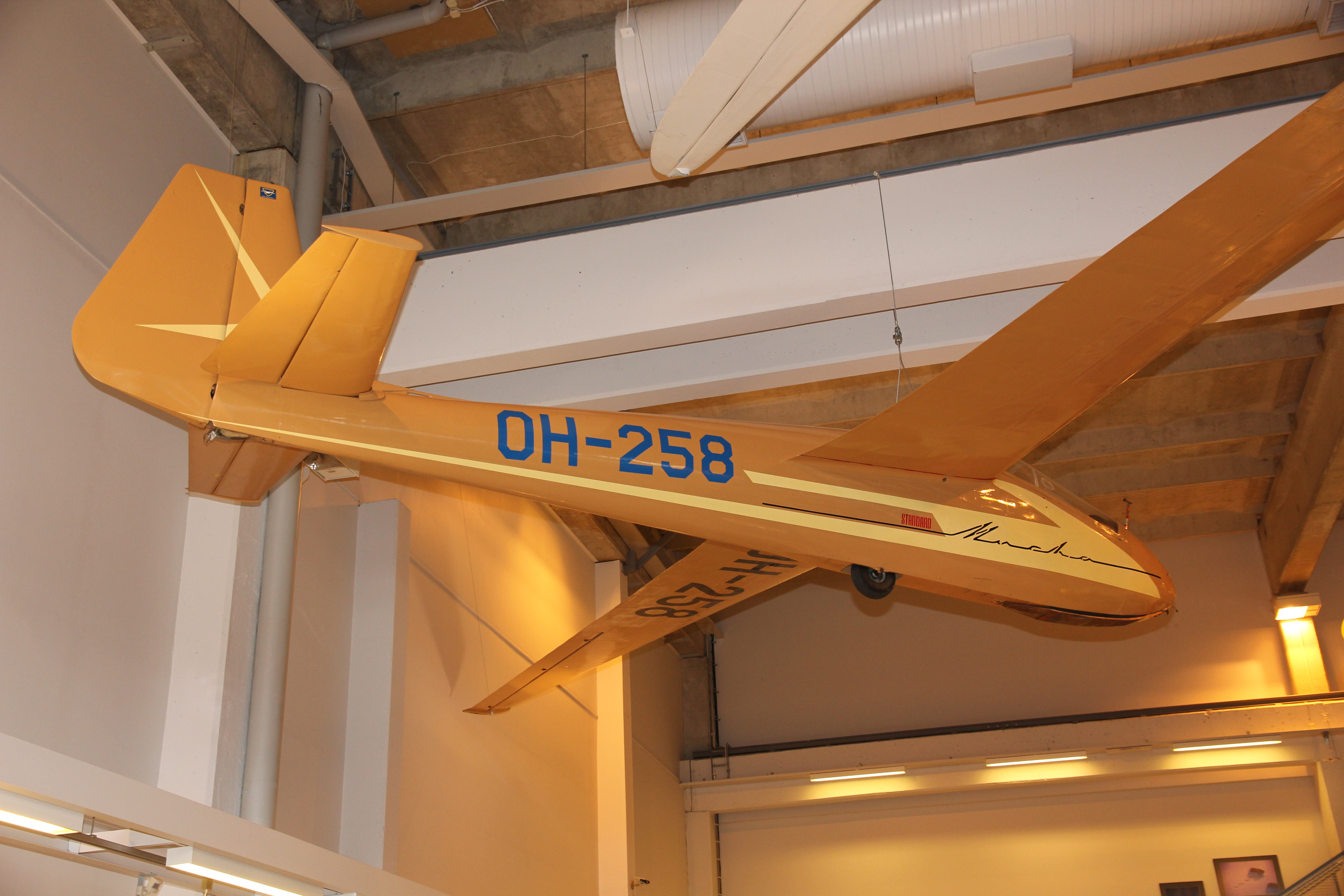 SZD-22 Mucha Standard (OH-258) glider in the Aviation Museum of Central Finland.